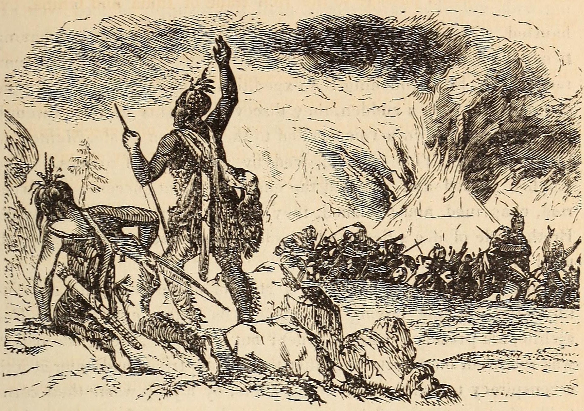 An engraved illustration of Secotans fleeing the burning of Aquascogoc in 1585. English explorers visited several Secotan villages during Richard Grenville's expedition to establish a colony on Roanoke Island. After a silver cup was reported stolen, Grenville ordered a party to return to Aquascogoc (at what is now Belhaven, North Carolina) to demand its return. When the cup was not found, the English burned the village to the ground. This image appears in the The Indian: On the Battle-field and in the Wigwam (1858) with the caption "Grenville Burning An Indian Town," and in An Illustrated History of the New World (1868) with a similar caption. However, historical records do not tell us whether Grenville personally led the attack. Both books mention illustrations by "Croome" but do not specifically credit the creator of this image.